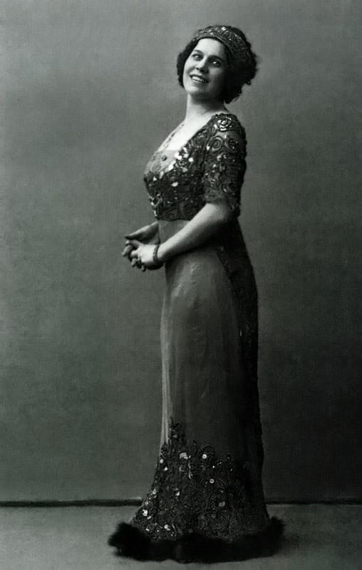 Nadezhda Plevitskaya